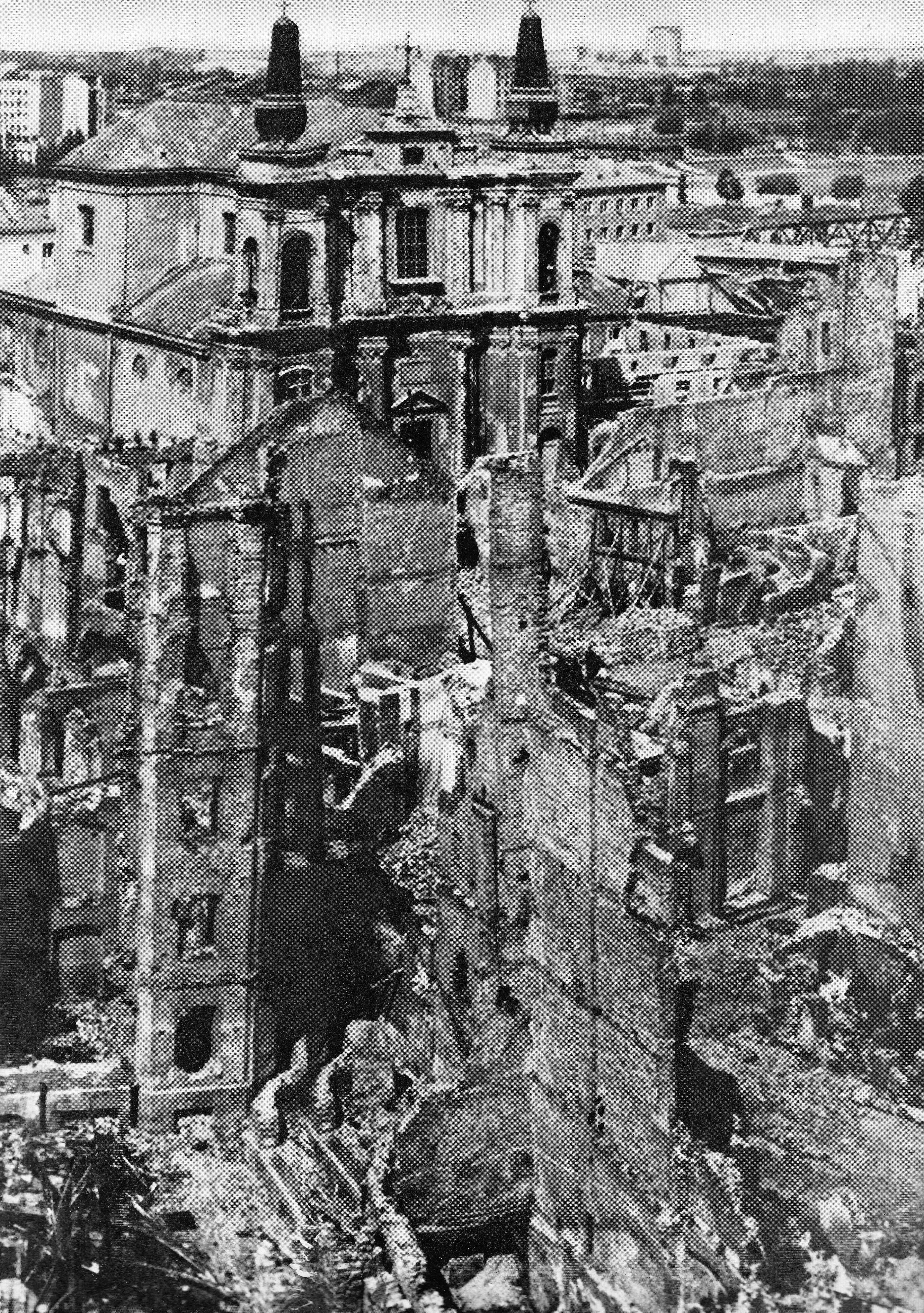 Saint Francis church in Warsaw among the ruins of the New Town